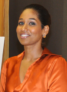 U.S. Ambassador Pamela E. Bridgewater (left), Hon. Lisa Hanna, Minister of Youth And Culture (centre), Denise Herbol, USAID Jamaica Mission Director (right)